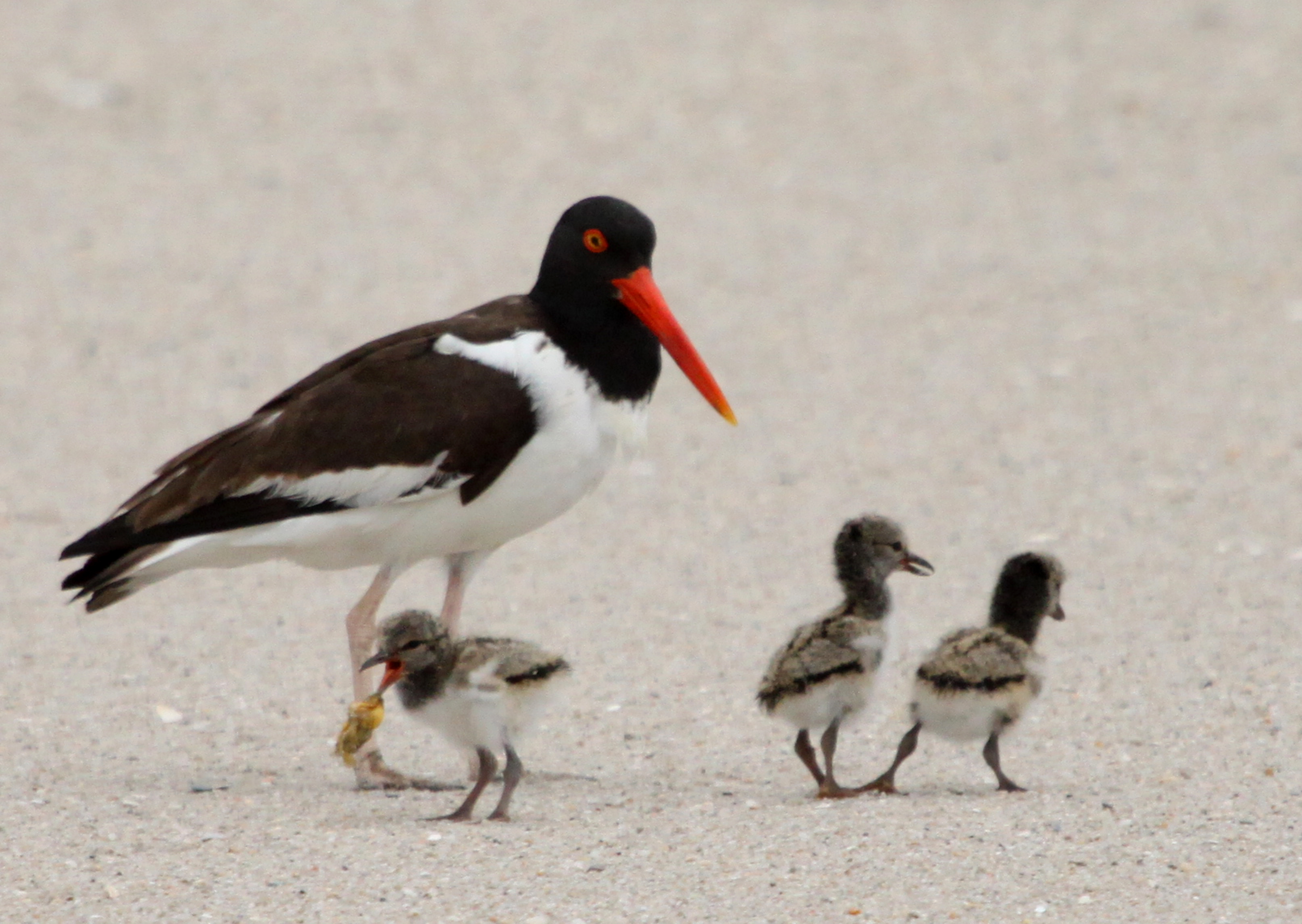 A parent American Oystercatcher with chicks in Atlantic coast, New Jersey, USA.